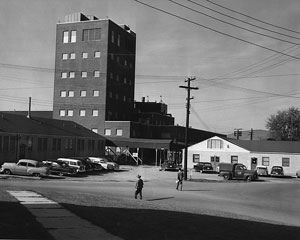 Building 470 (Pilot Plant) anthrax production facility, 1953.